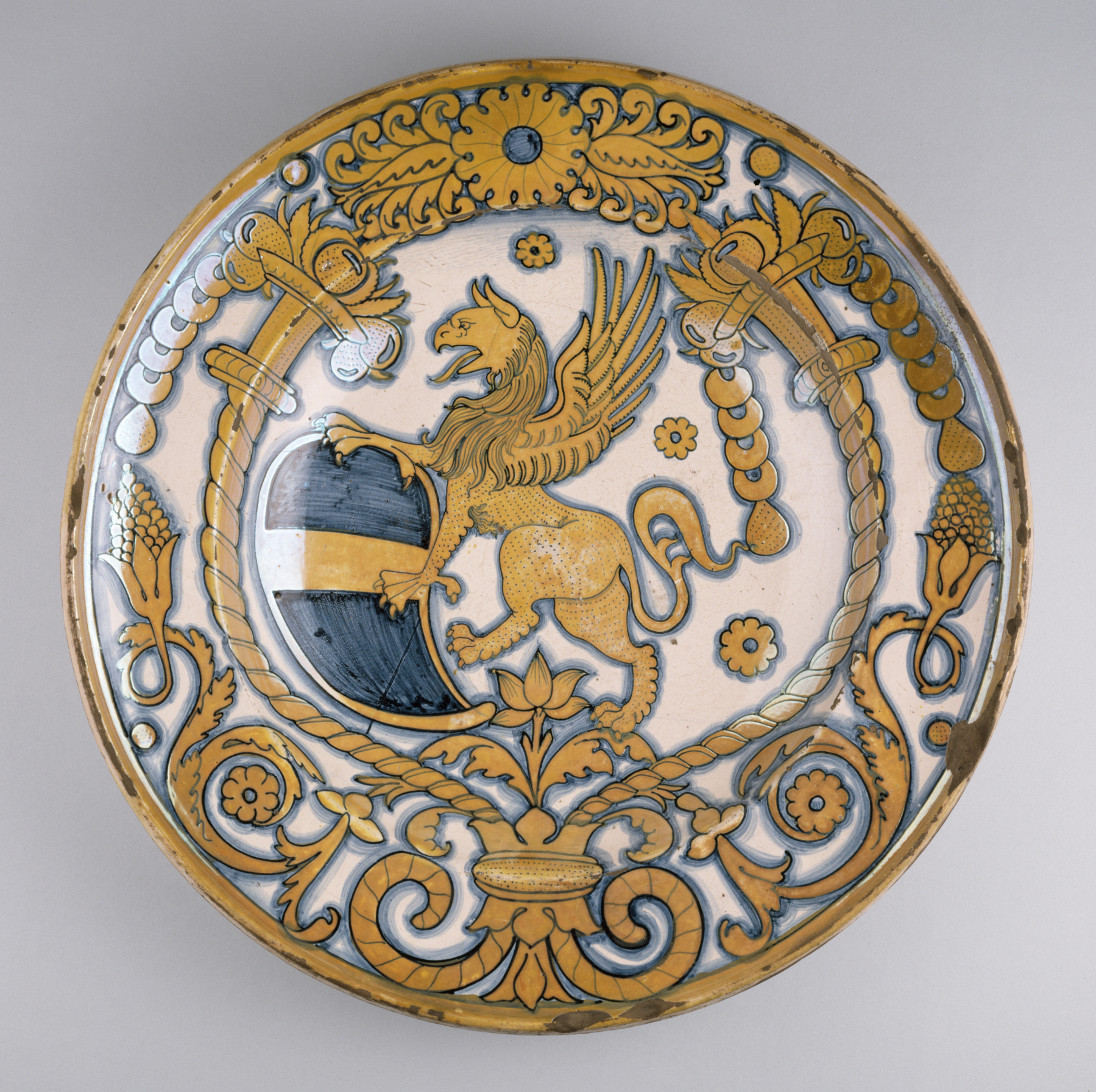 The arms painted in gold-colored luster and cobalt blue and held by the griffin in the center are those of Ercole Baglioni, the bishop of Orvieto. This dish is presumably from a maiolica service commissioned for use during ceremonial occasions at his official residence.